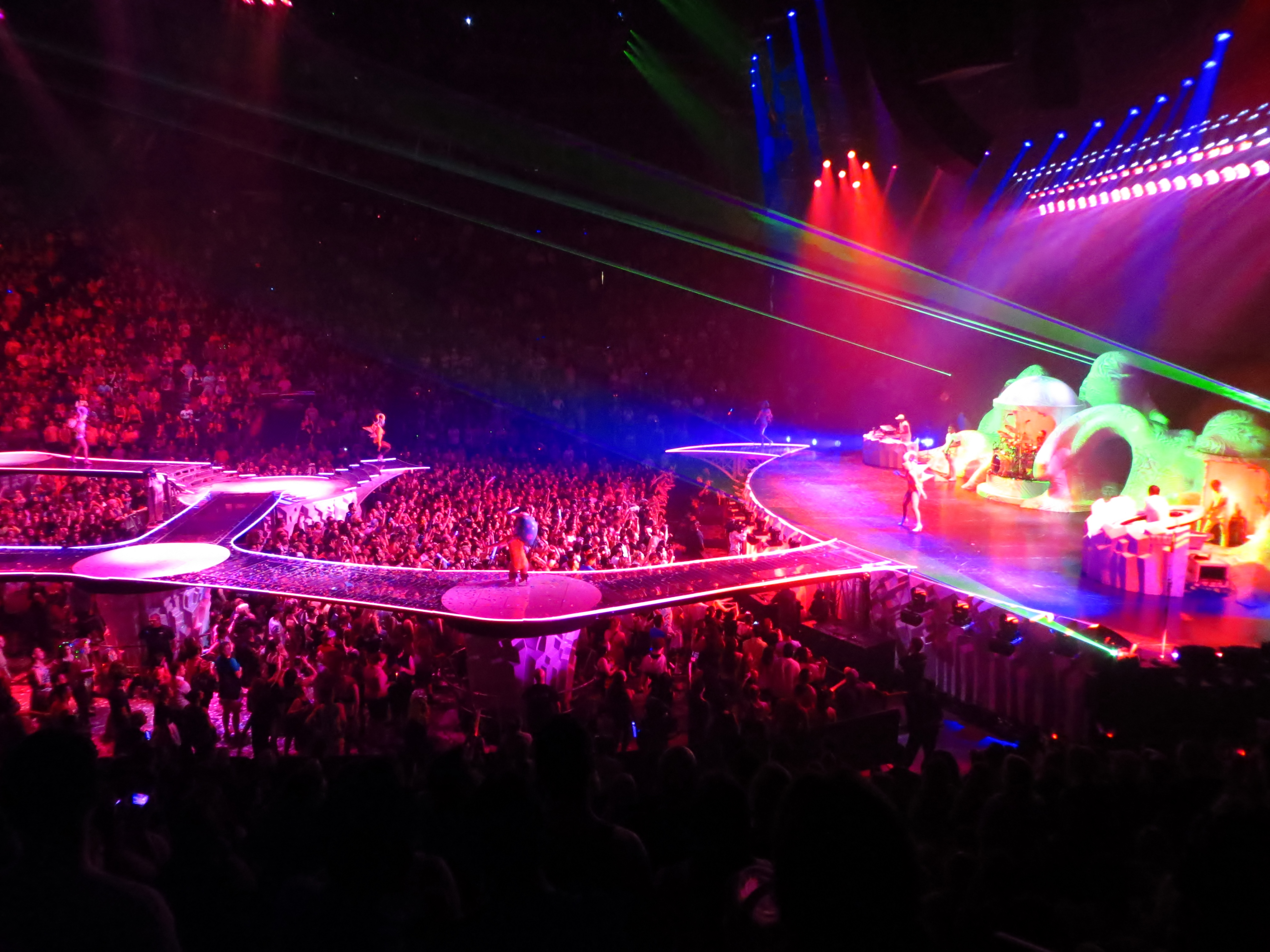 Lady Gaga, ARTPOP Ball Tour, Bell Center, Montréal, 2 July 2014 (41) Gaga performing on ArtRave: The Artpop Ball tour